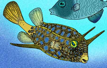 Reconstruction of the extinct boxfish, Oligolactoria bubiki, of the Rupelian epoch, Oligocene Moravia